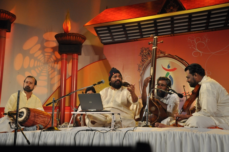 Classical Music Concert by Dr K. J. Yesudas at Nishagandhi Festival 2011 opening ceremony.